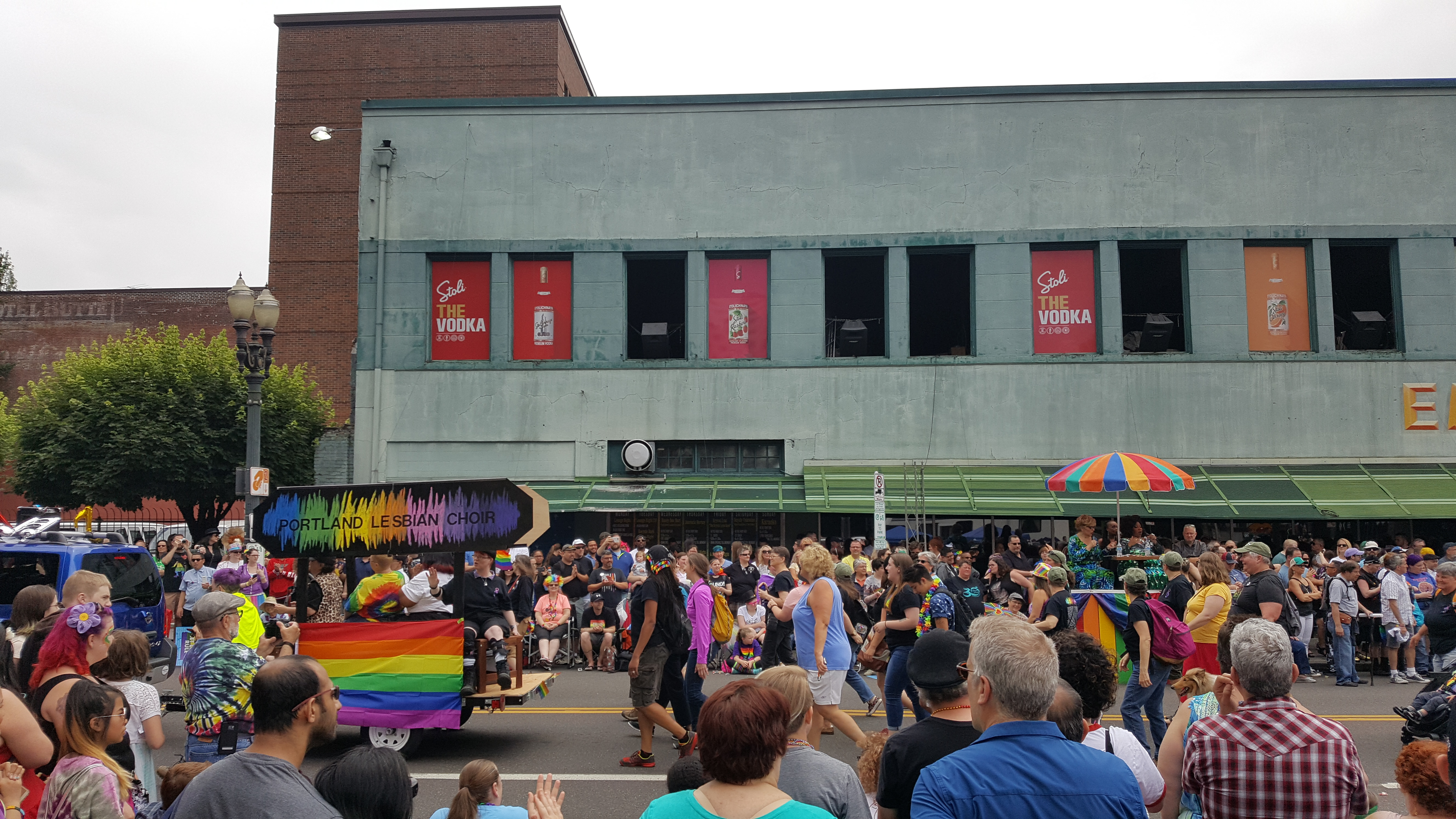 Portland Pride, 2017